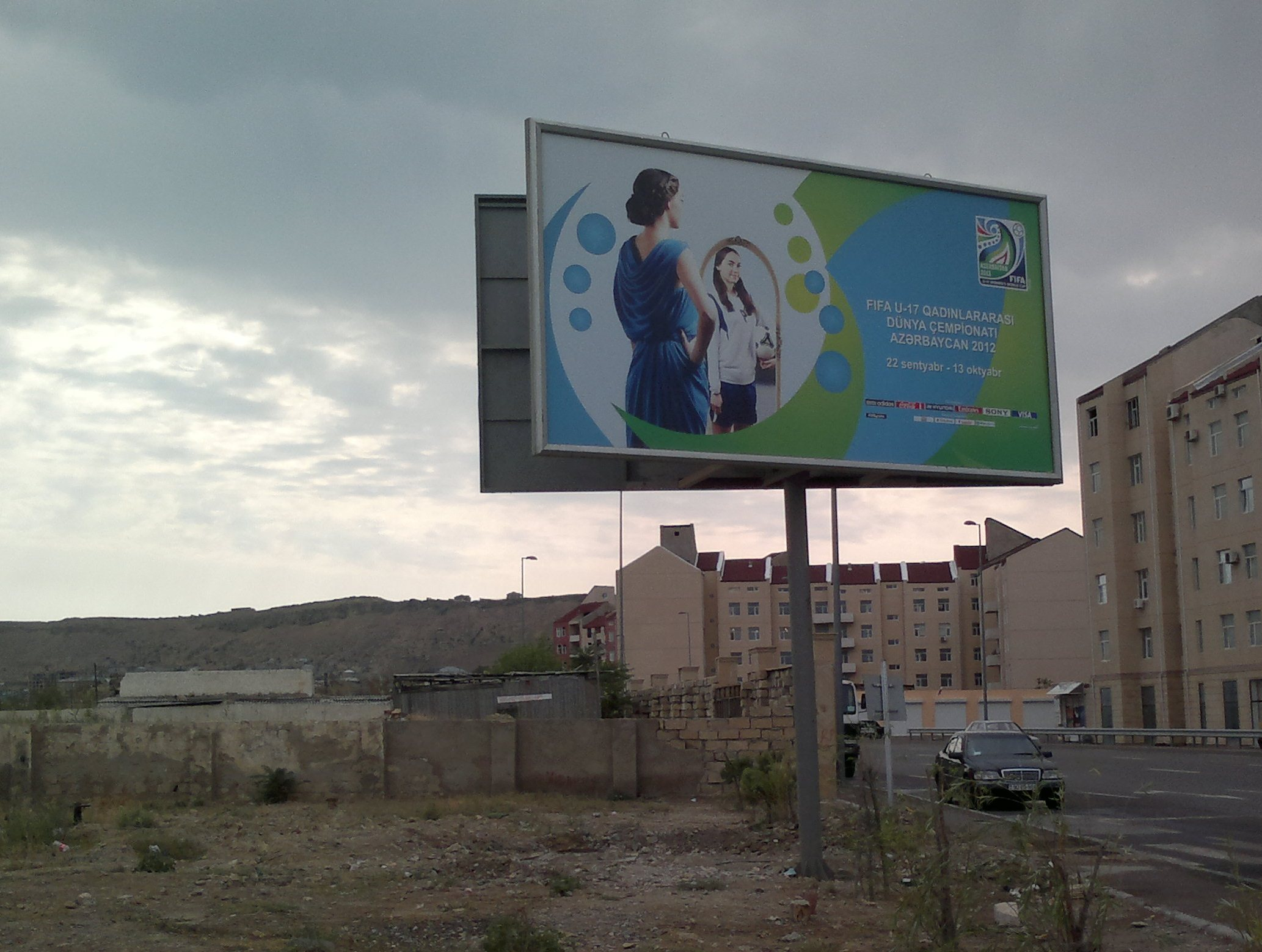 Street in Bayil settlement in Baku